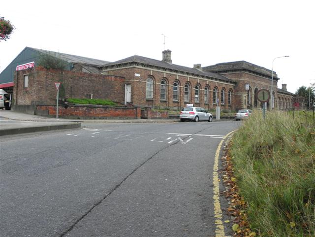 Monaghan Railway Station. Looking north-east from North Road